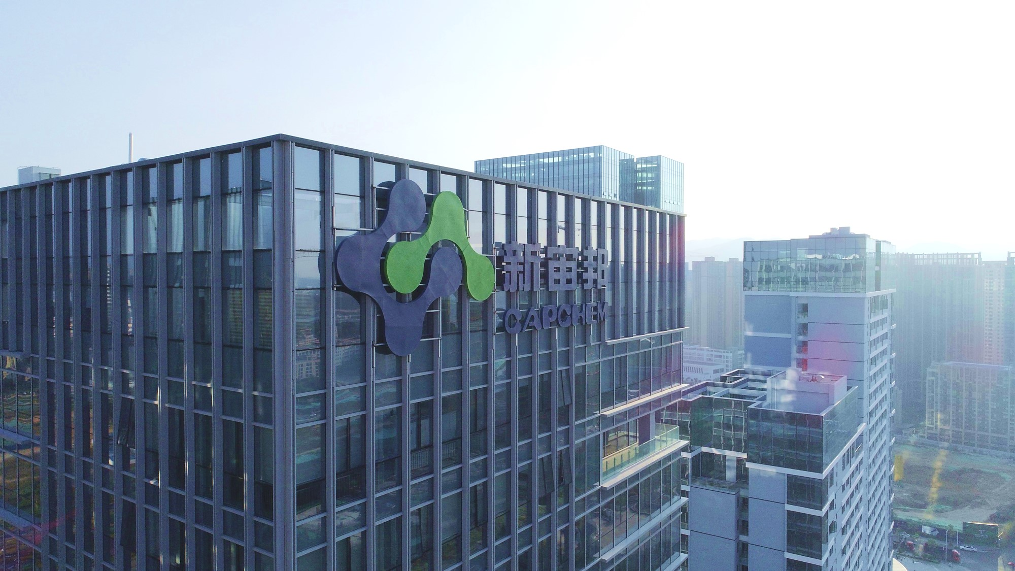 Capchem Plaza - the current headquarter of Capchem